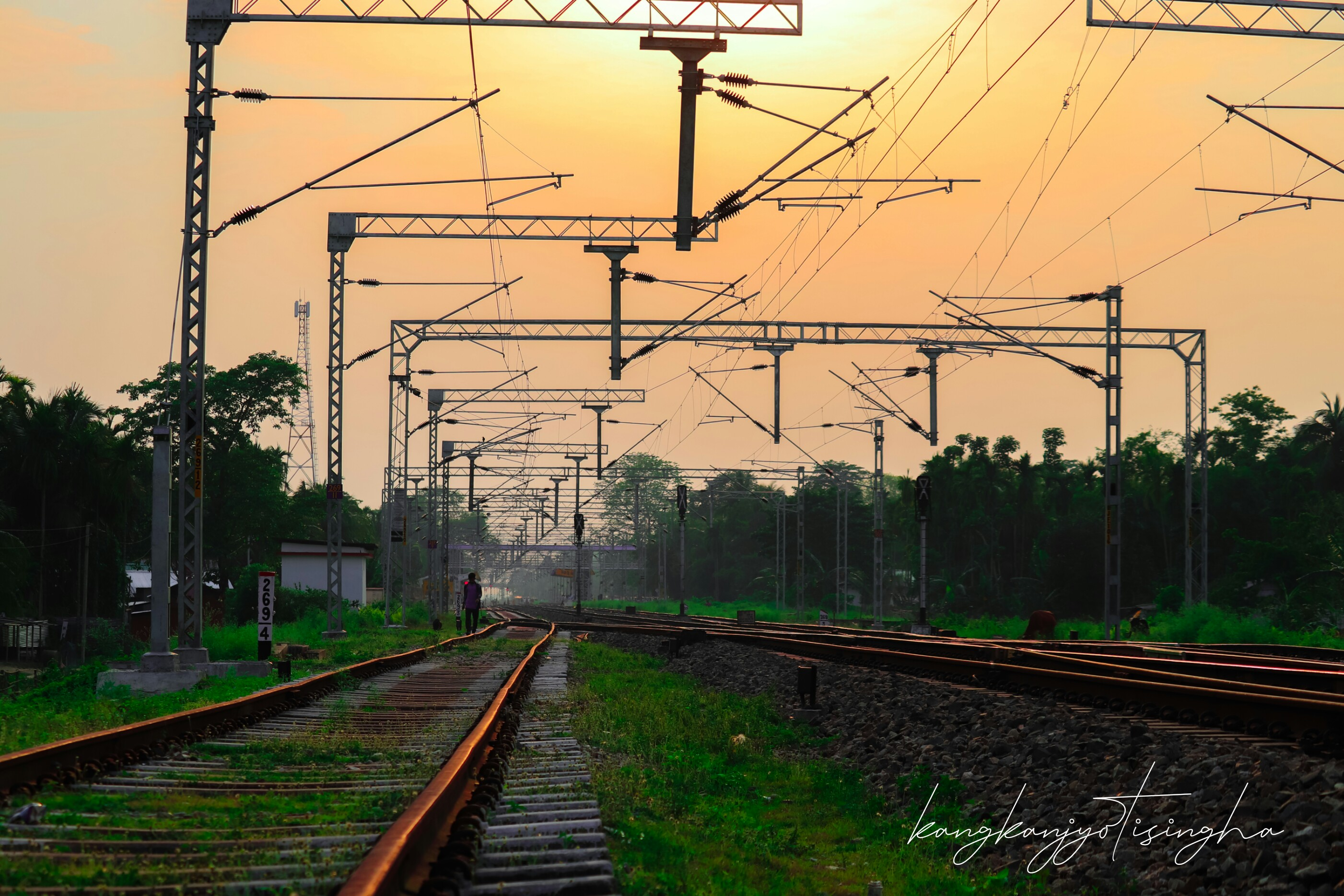 Bijni Railway Station,Assam 2019